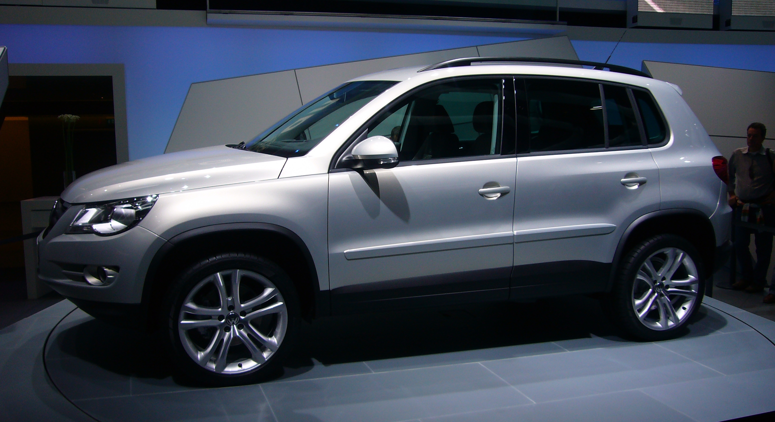 Volkswagen Tiguan Track & Field at IAA Frankfurt 2007